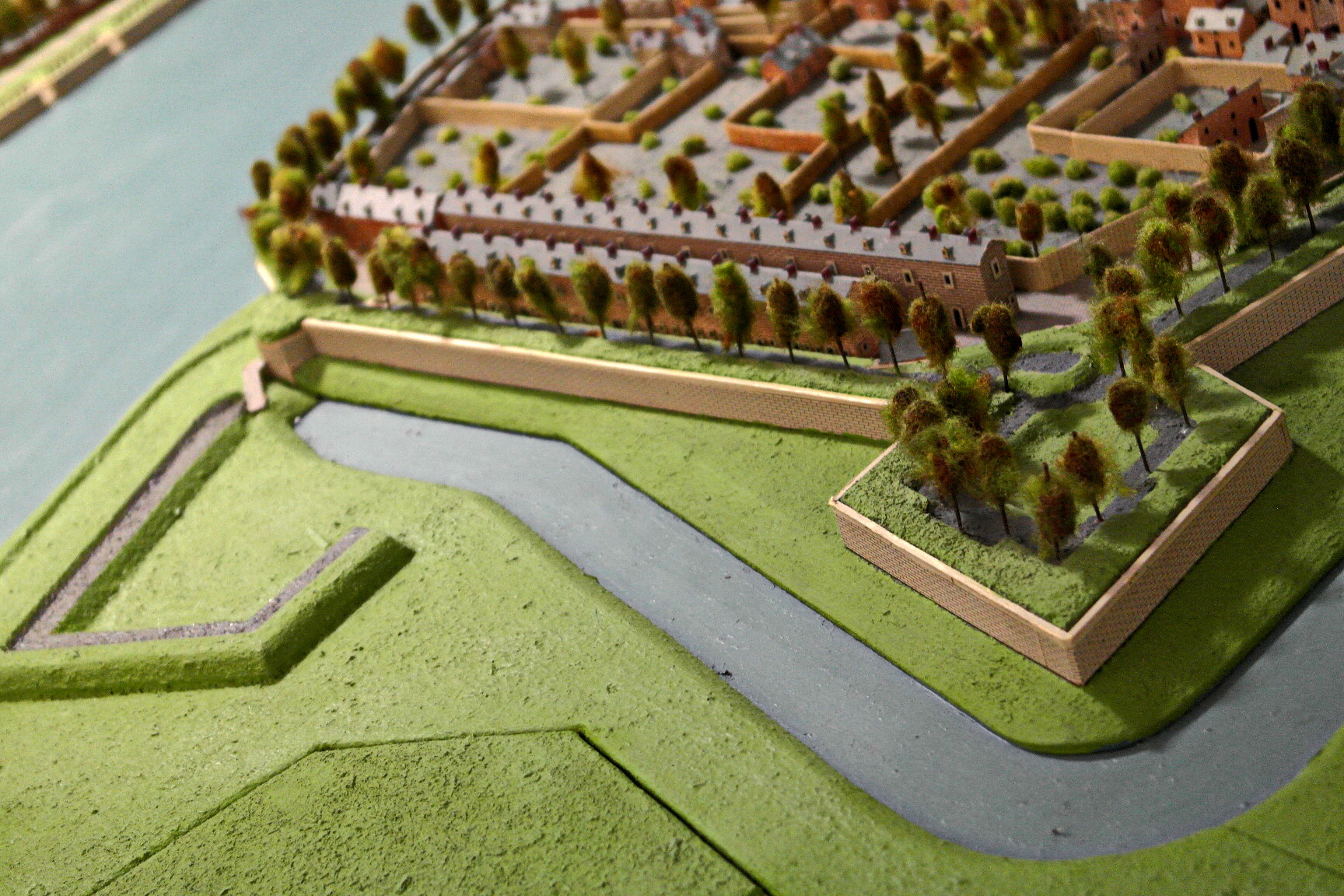 Detail of the copy of the French Maquette of Maastricht on display in Centre Céramique, Maastricht, the Netherlands. The copy was made in 1974-1982, based on the mid-18th-century scale model made for King Louis XV of France. This section shows the southeastern city wall in Wyck near the river Meuse with the Hoge Maaspunt ravelin (left) and Parma bastion (right). The barracks behind the city wall have long disappeared but the street is still named Hoge Barakken.